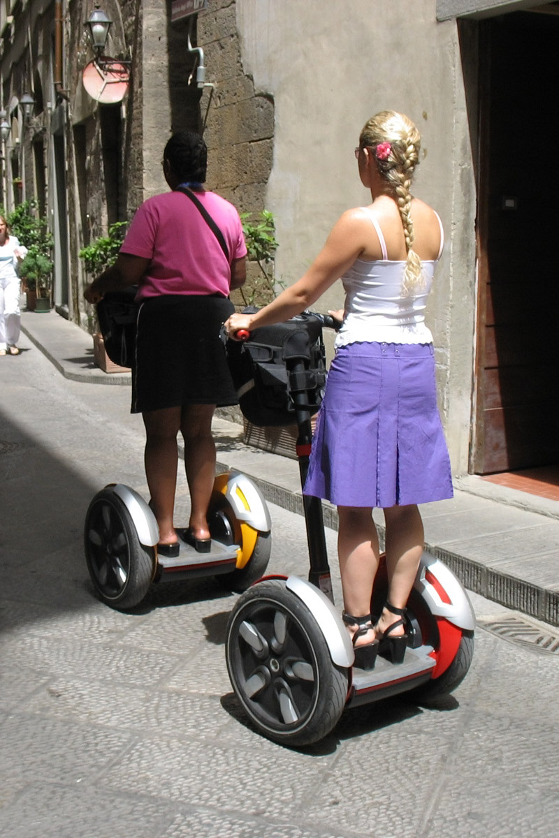 Reduced noise, reduced file size, converted to JPEG.